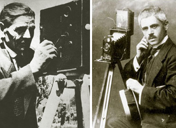 Montage of images File:Ianaki Manaki.jpg and File:Milton Manaki.jpg. Own work created with Photoshop.